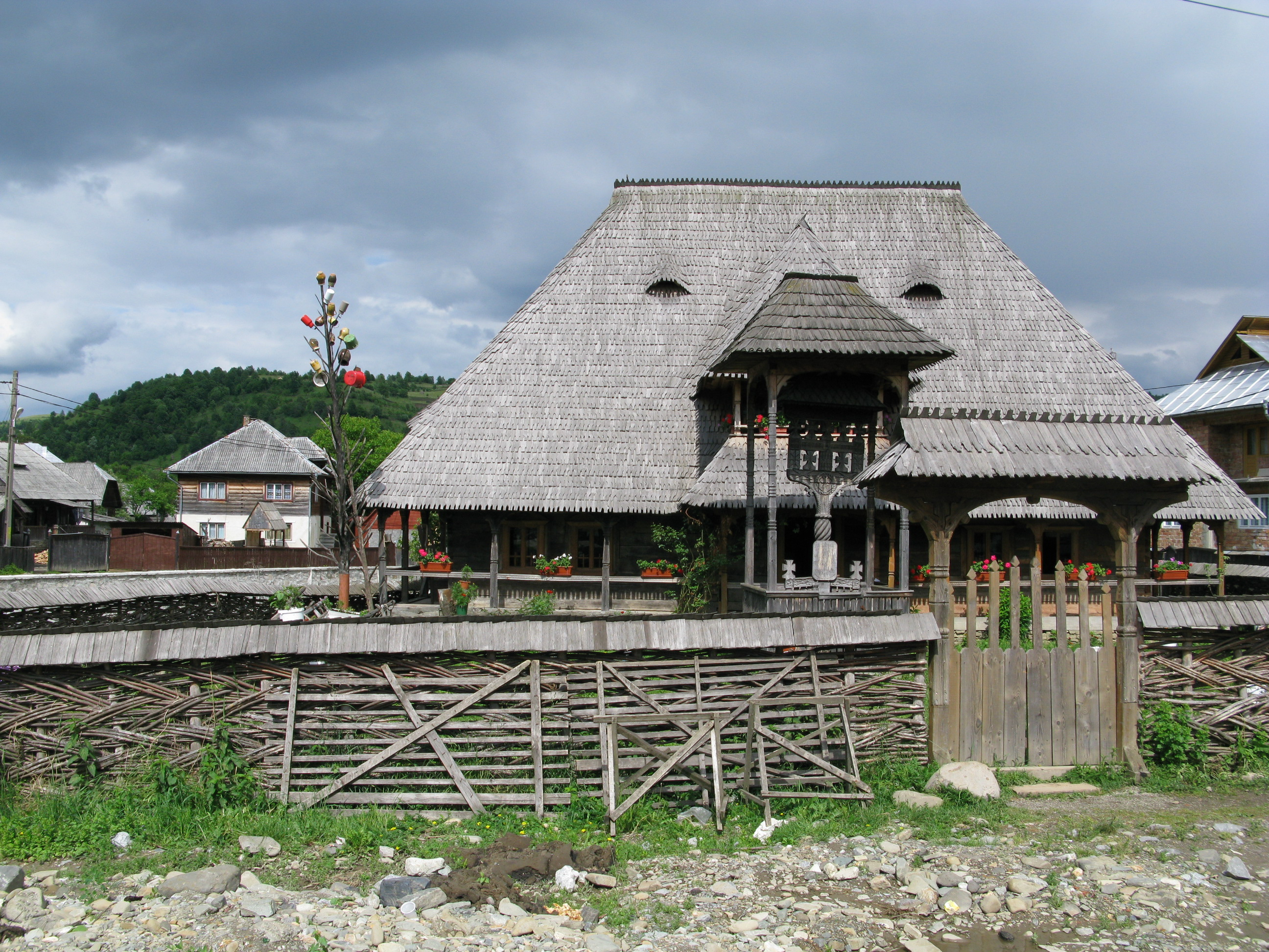 Rectory near the village's main street in Botiza / Maramureş in north of Rumania / EU.